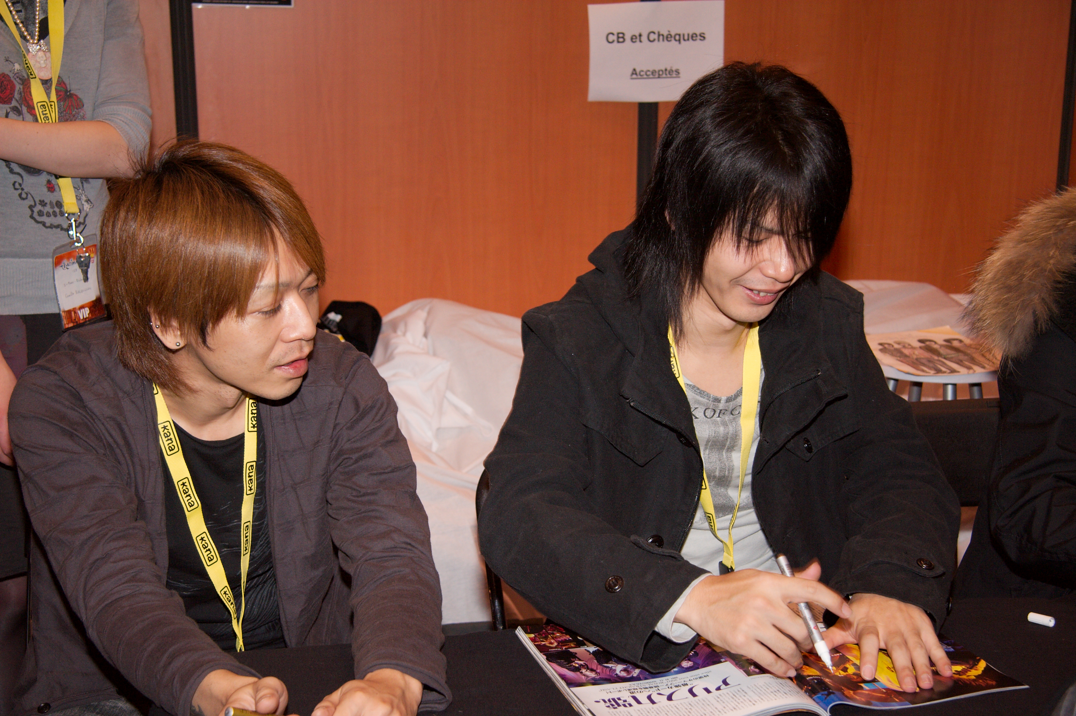 Autograph session with Plastic Tree at Chibi Japan Expo 2007 (Paris, France).